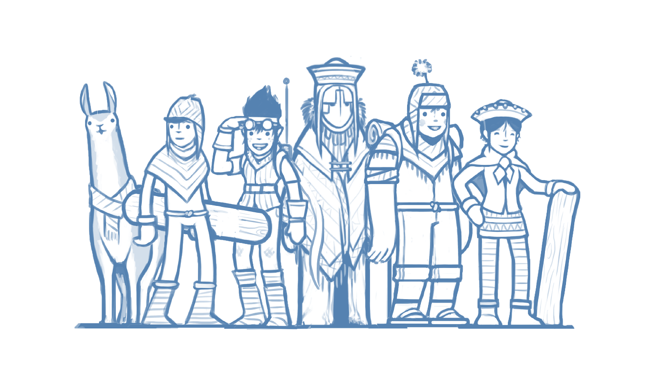 Concept art from indie video game Alto's Adventure